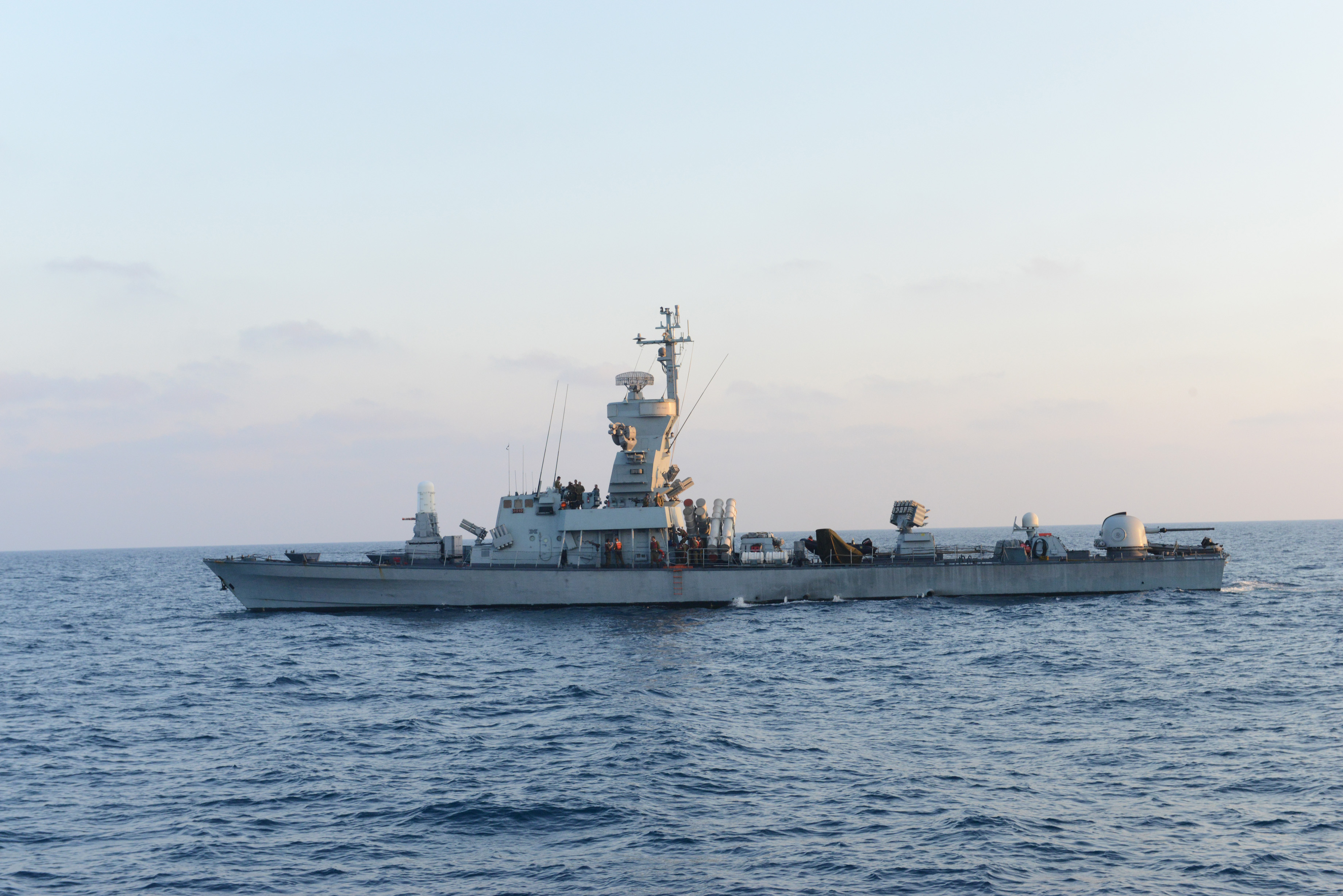 During Operation Protective Edge, the Israel Navy makes targeted strikes on Gaza from the Mediterranean Sea. For more updates: The Israel Defense Forces Facebook The Israel Defense Forces blog Follow us on Twitter